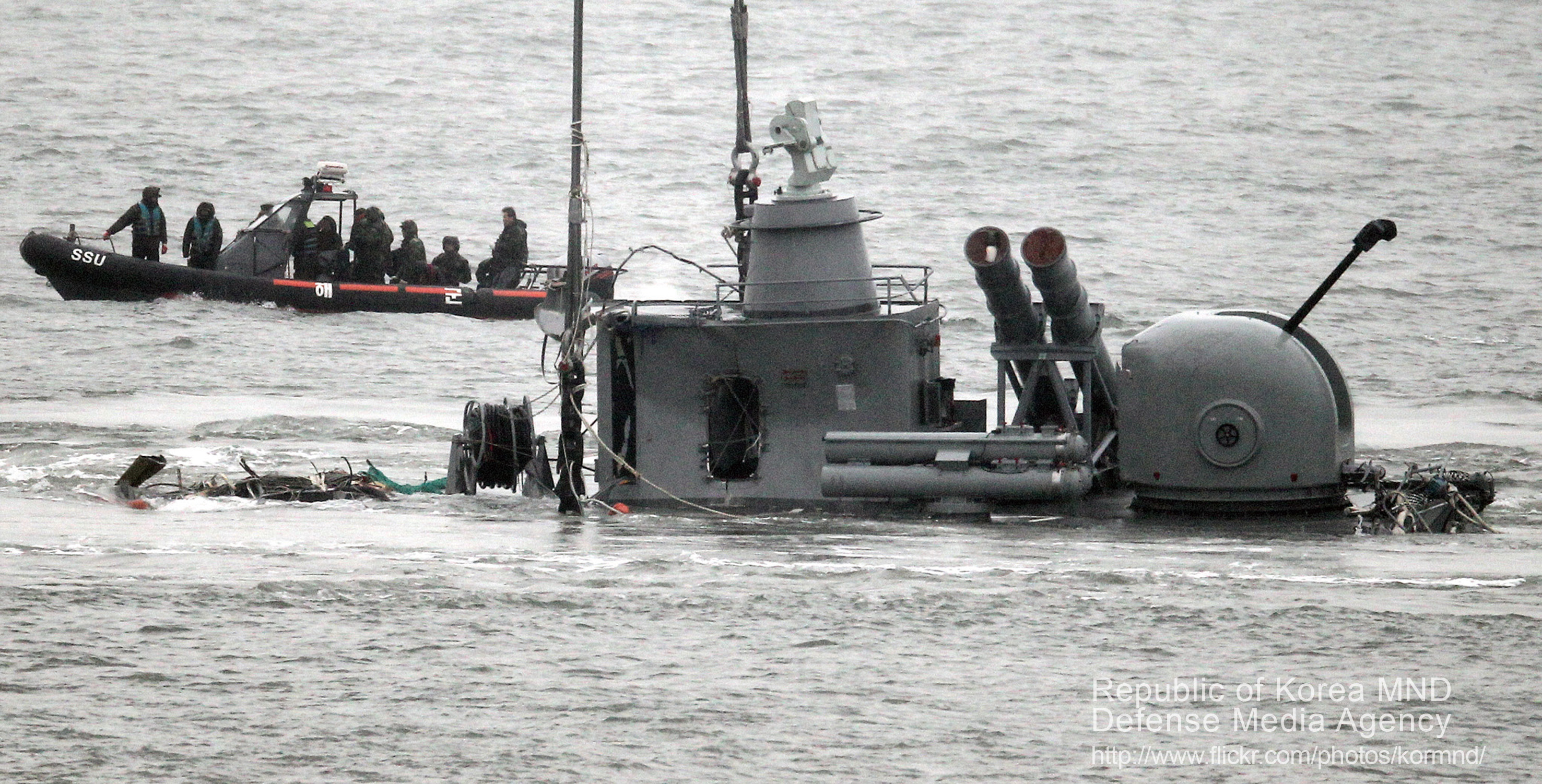 2010 국방화보 Rep. of Korea, Defense Photo Magazine 천안함 함미 부분 인양 작업 중인 백령도 연화리 앞바다에서 민간 해난구조업체 요원들과 해군 해난구조대 관계자들이 함미 부분에 쇠사슬 2개 결색을 완료한 뒤 함미 부분을 연안 쪽 수심 25m 지점으로 이동시키고 있다. 함미 일부가 모습을 드러내고 있다. During its recovery operation, civilian sea - rescuers and ROK Navy SSU personnels have connected the stern of the ship with two chains. After chaining up the stern, ROK Navy ship, Cheonan is being moved to the depth of 25 meter. Part of the stern is visible.